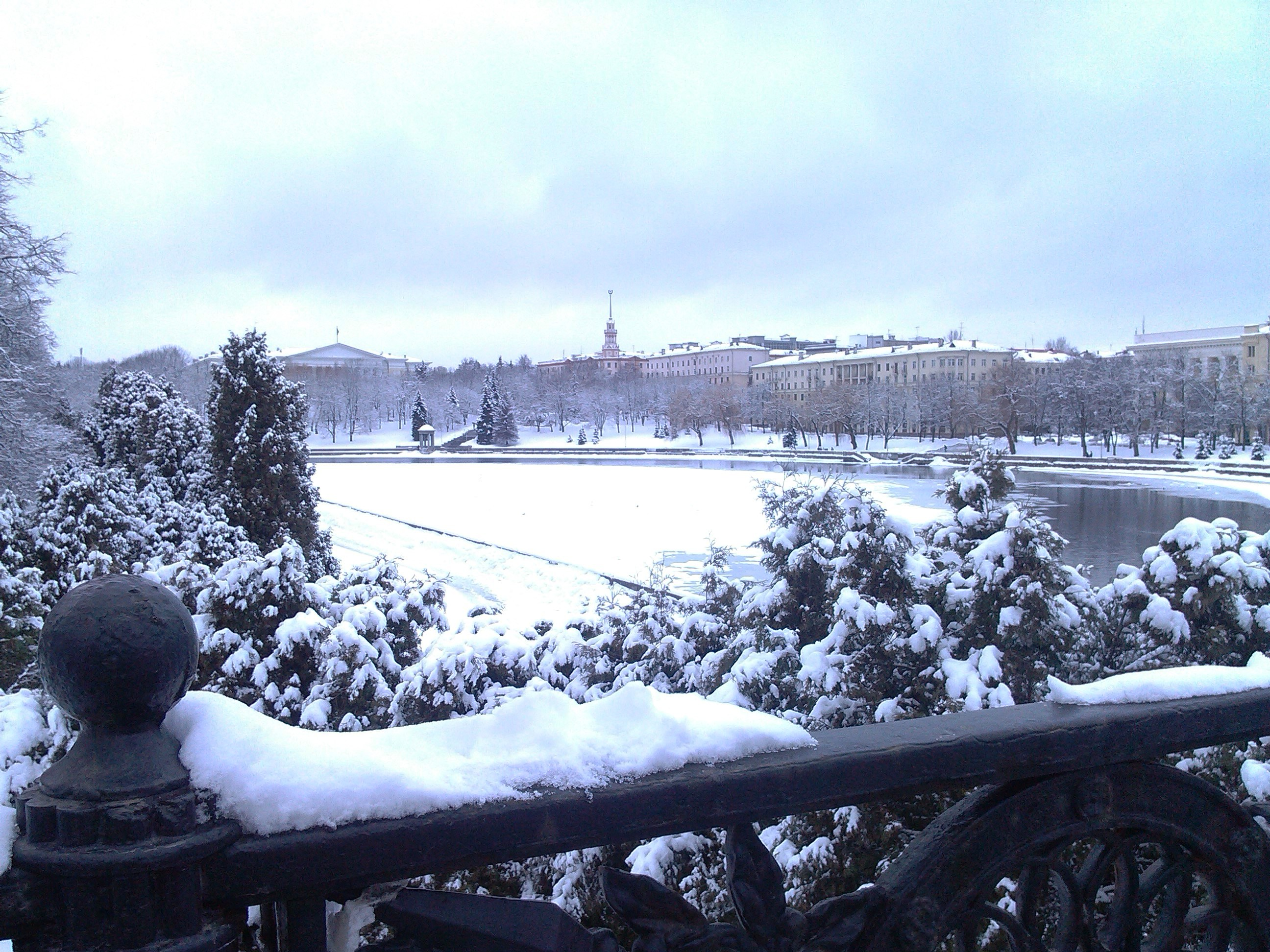 The River Svislach in Minsk, Belarus